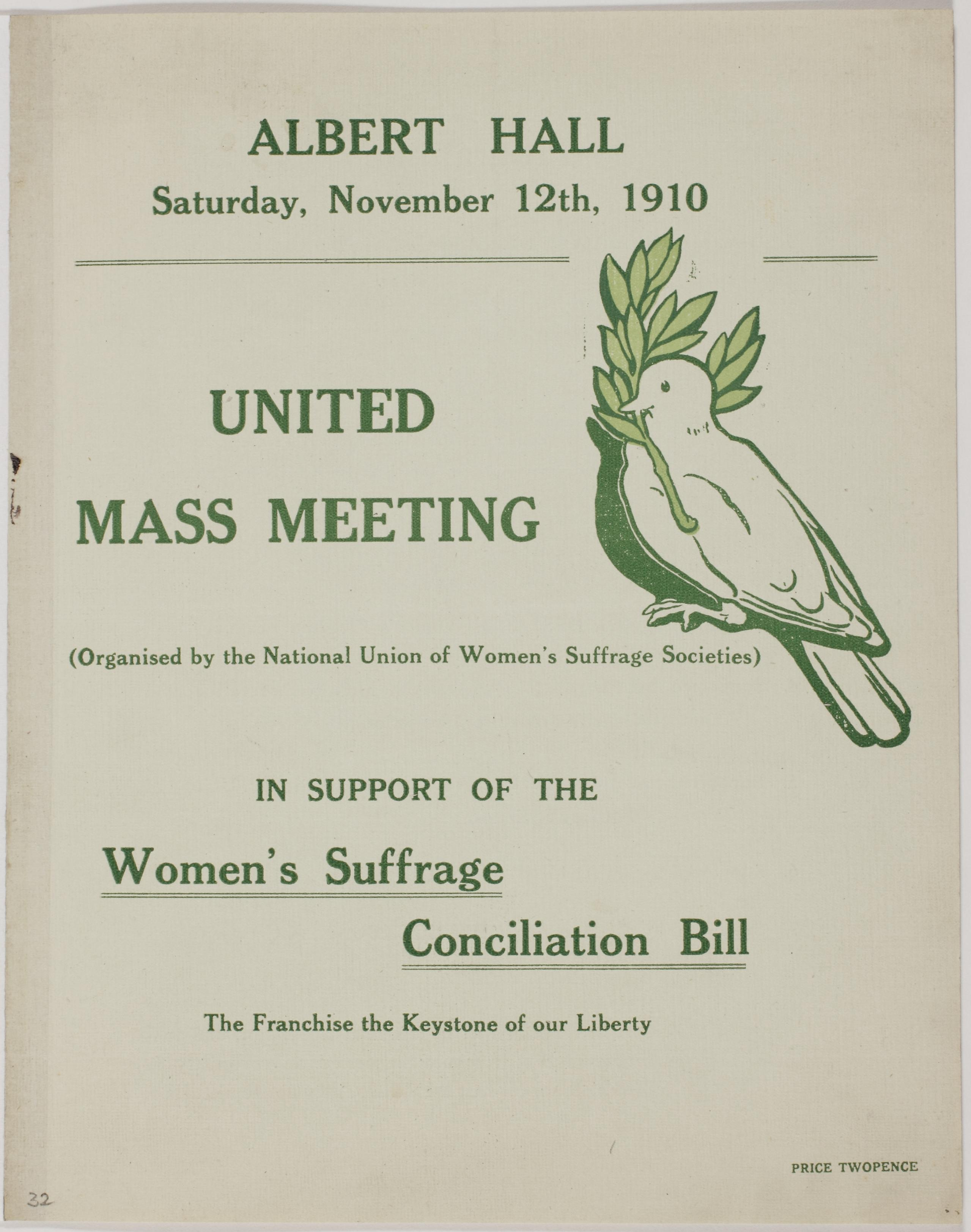 2ASL/11/33 Flyer (leaflet), mechanically printed, green ink on paper; front: green ink on paper, dove holding an olive branch and details of meeting, green printed lettering; 'Albert Hall Saturday 12 Nov 1910 United Mass meeting (organised by the National Union of Women's Suffrage Societies) in support of the Women's Suffrage Conciliation Bill', inside and reverse: green printed lettering programme of meeting and details of supporters.